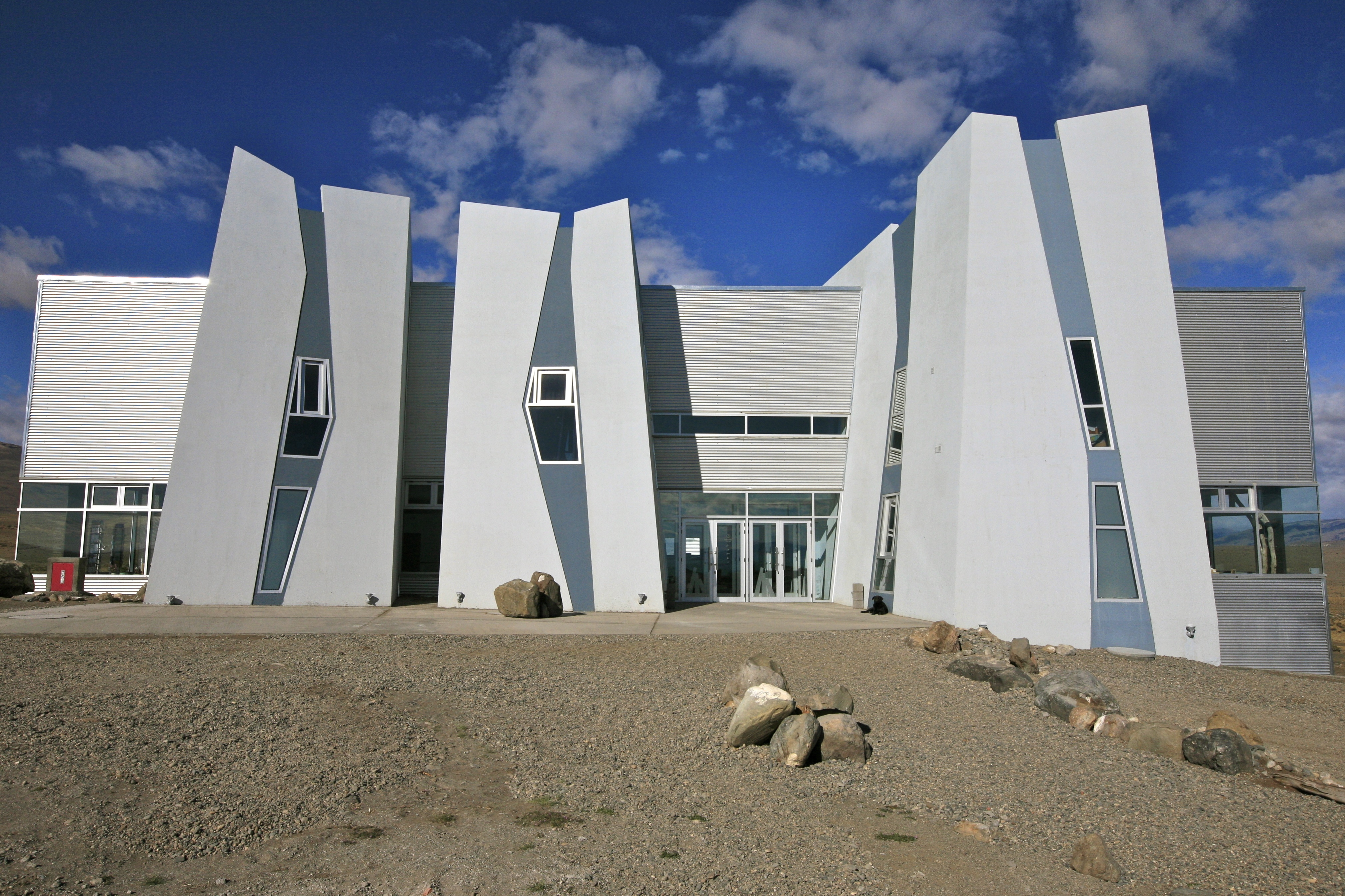 Glaciarium, the Museum of Patagonian Ice, in El Calafate, Santa Cruz Province, Argentina.